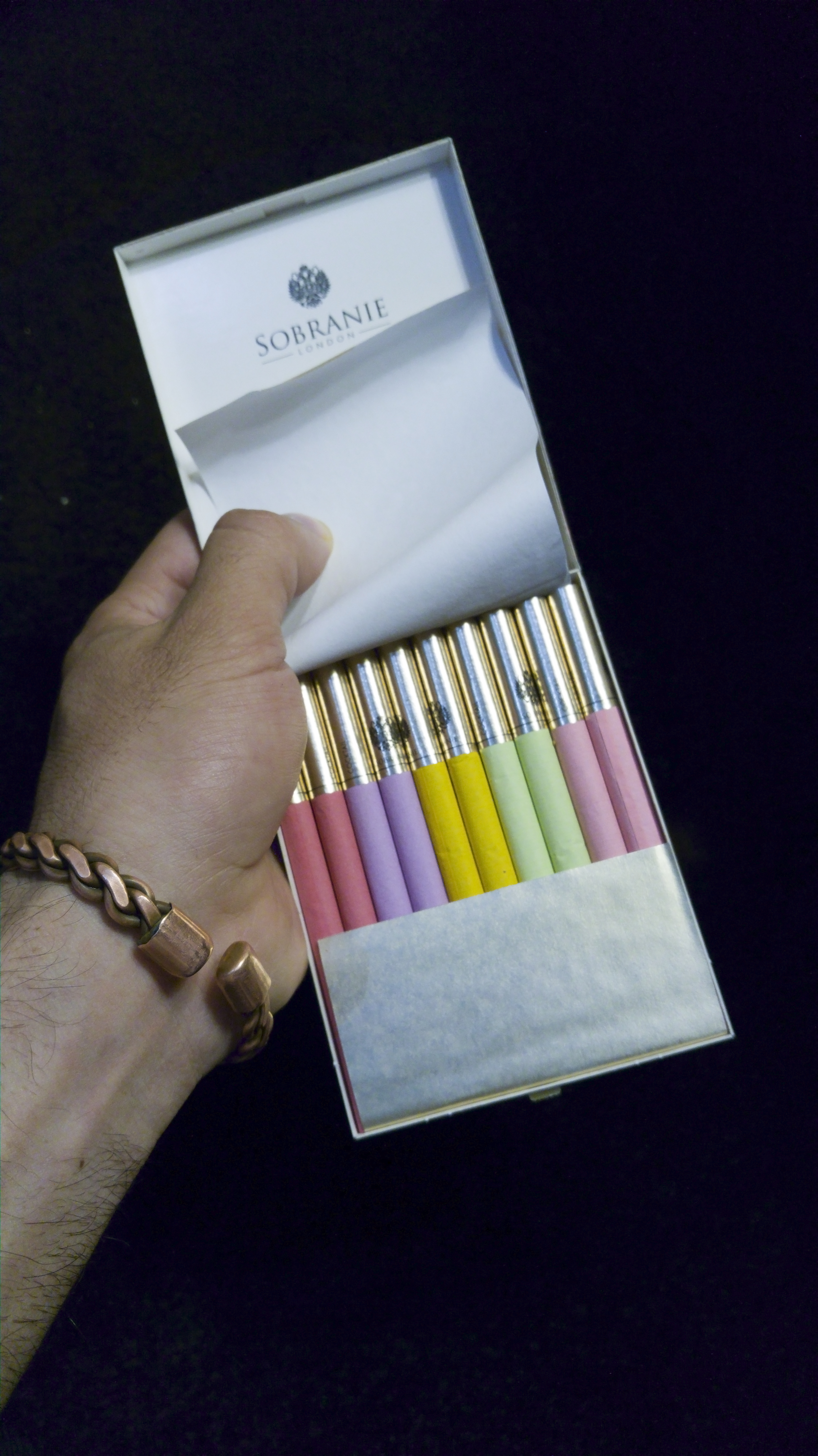 Sobranie (Russian: Собрание, "Gathering", "Collection", "Assembly") is a British brand of luxury cigarettes, currently owned and manufactured by Gallaher Group, a subsidiary of Japan Tobacco.